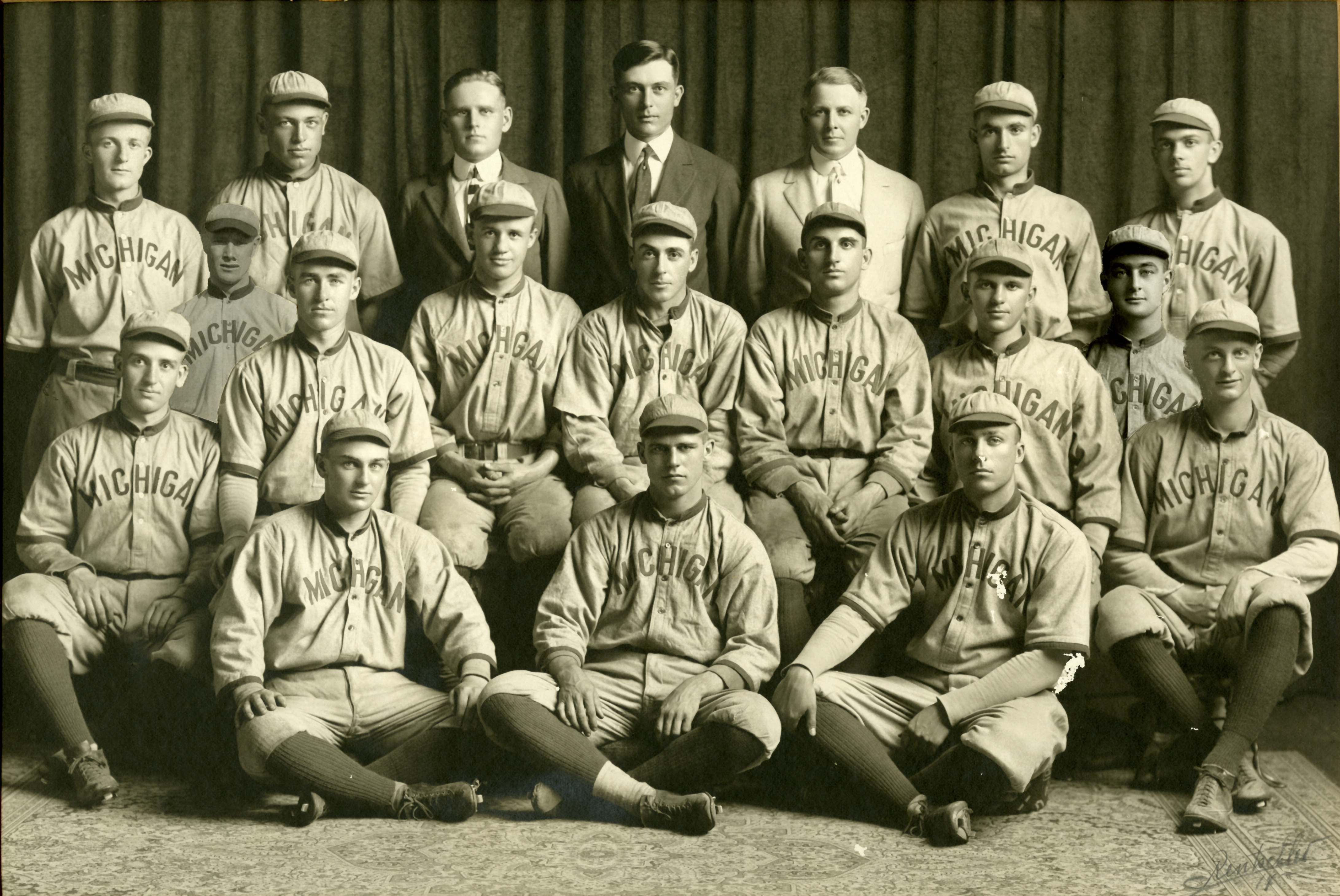 1914 University of Michigan baseball teamBack row: Ralph Waltz (3rd base), Leland Benton (right field), Walter Emmons (student manager), Carl Lundgren (coach), Phillip Bartelme (atletic director), George Labadie (left field), William Graham (out field)Middle row: Charles Hippler (catcher), Cregar Quaintance (pitcher), Tommy Hughitt (3rd base), Roy Baker (short stop), Edmond McQueen (2nd base), Russell Baer (catcher), Charles Ferguson (pitcher)Front row: Frank Sheehy (center field), George Sisler (captain, pitcher), Roy Baribeau (pitcher)Inset players behind middle row: Perry Alonzo Howard (1st base) and Wilbur Davidson (pitcher)